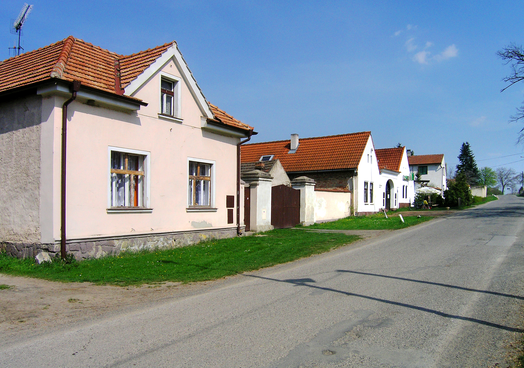 Common in Veliký Brázdim, local part of Brázdim village, Czech Republic